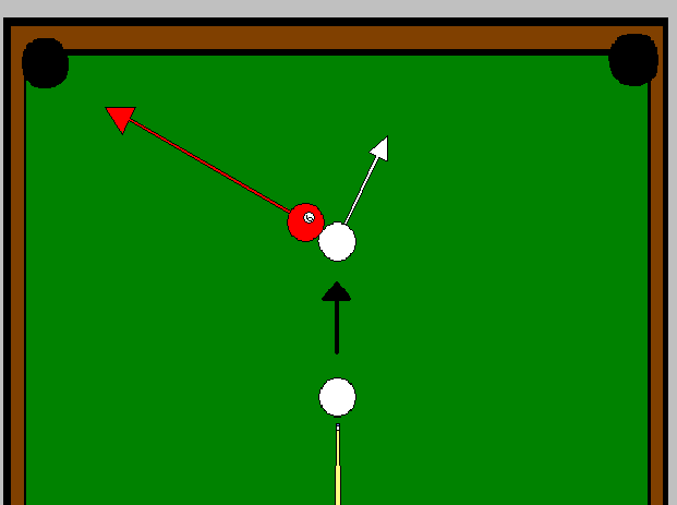 vectors